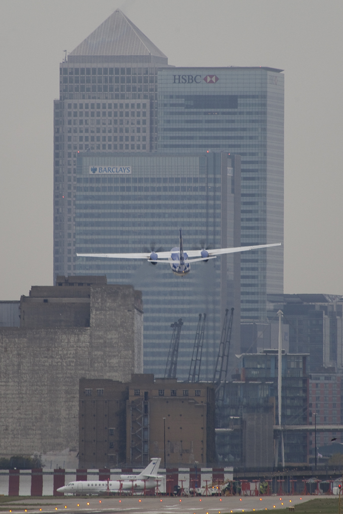 VLM Fokker F50 taking off from London City Airport.